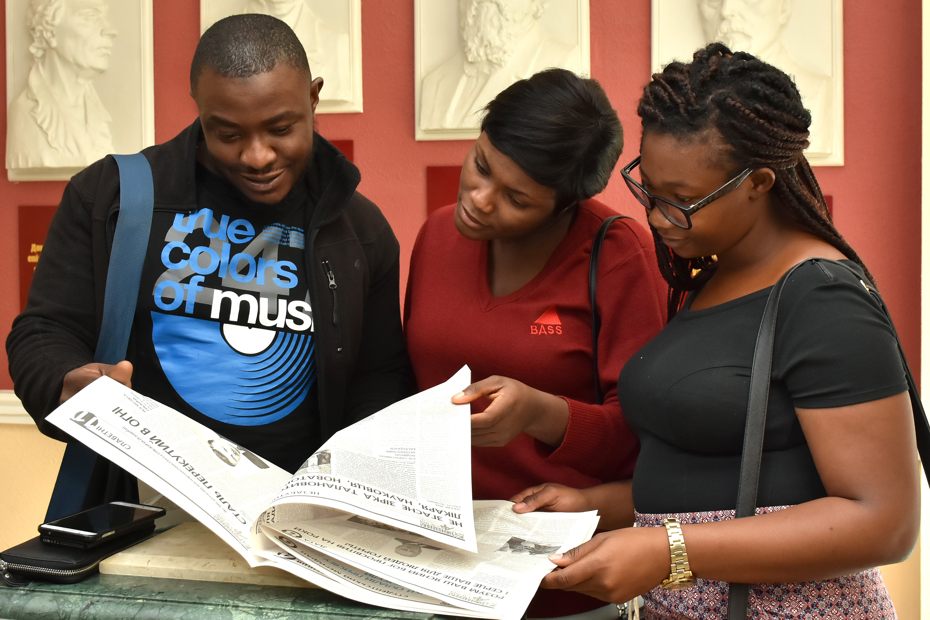 Students International Students Faculty of Ternopil State Medical University Aryeequaye-Addy Brian (Ghana), Ahuruonye Sharon Ogechi (Nigeria), Siwoku Ibukunoluwa Olumayowa (Nigeria) read «Medical Academy».